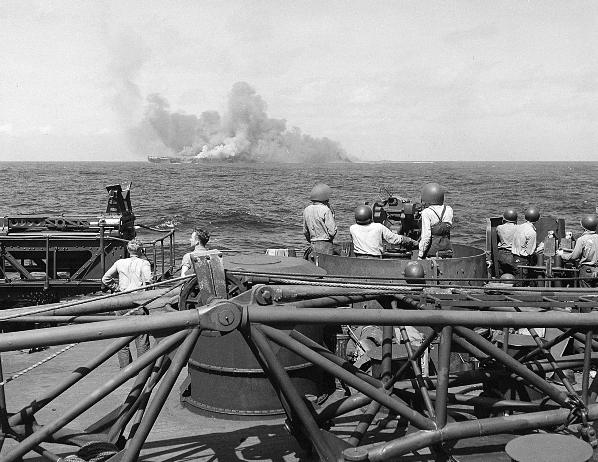 The U.S. Navy aircraft carrier USS Intrepid (CV-11) burns after being hit by Japanese kamikaze suicide planes off the Philippines on 25 November 1944. Two kamikazes crashed into Intrepid, killing sixty-six men and causing a serious fire. The ship remained on station, however, and the fires were extinguished within two hours. She was detached for repairs the following day, and reached San Francisco on 20 December. Original description: "USS Intrepid (CV-11) after being hit by Japanese plane in suicide dive in the Pacific. Taken from USS New Jersey (BB-62). Smoke coming from USS Intrepid (CV-11) gunners at 40mm guns on board USS New Jersey (BB-62) in foreground. ca. 11/25/1944."